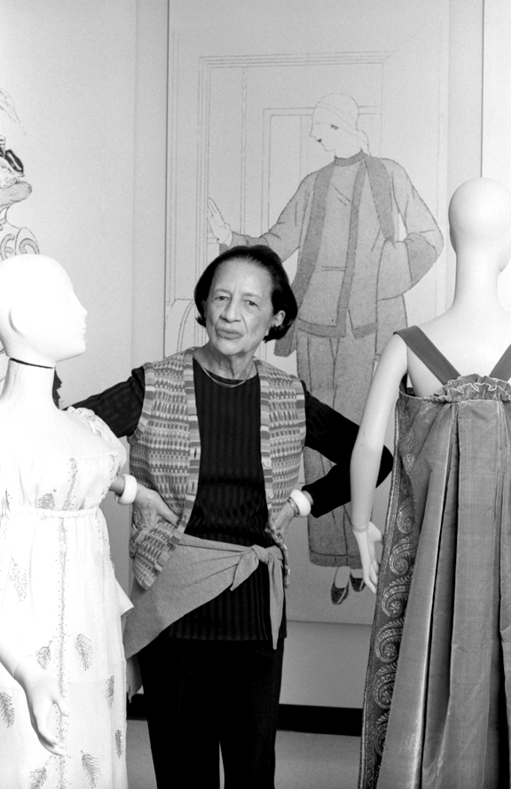 Diana Vreeland photographed in the Costume Institute at the Metropolitan Museum of Art, 1978 ©Lynn Gilbert